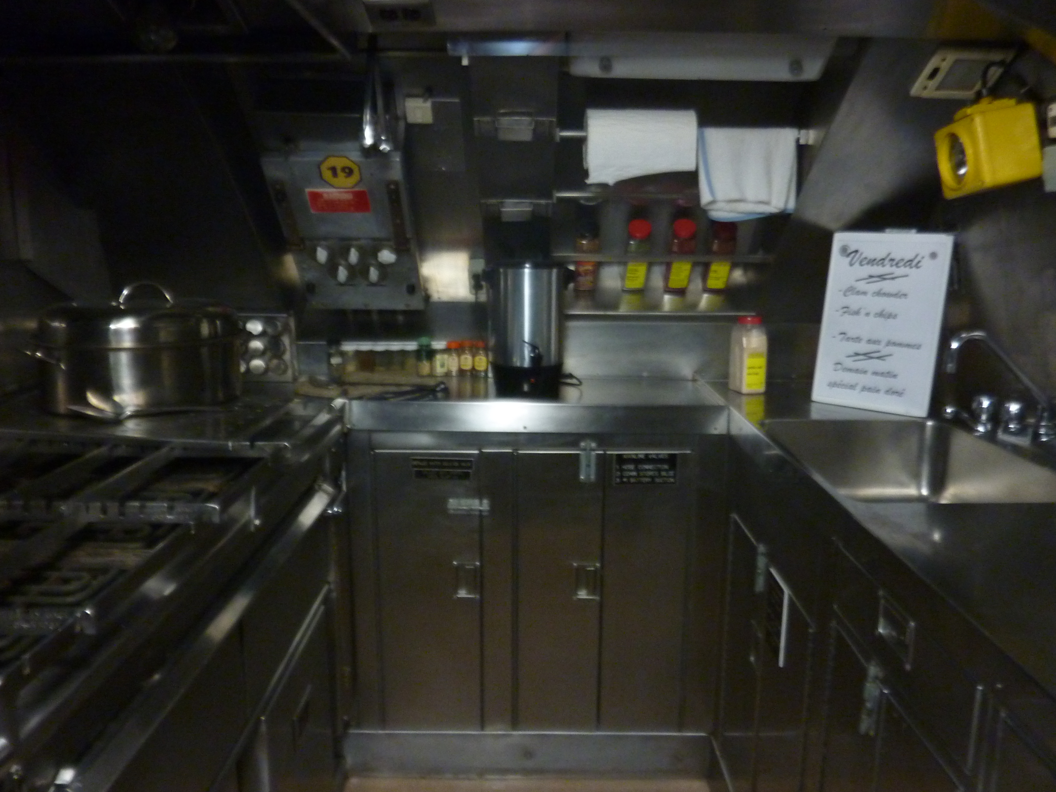 Kitchen of the Onondaga submarine, Site historique maritime de la Pointe-au-pere, Rimouski, Quebec, Canada - 2012-09